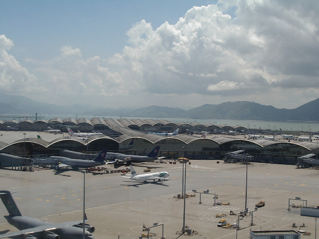 Hong Kong International Airport - outside